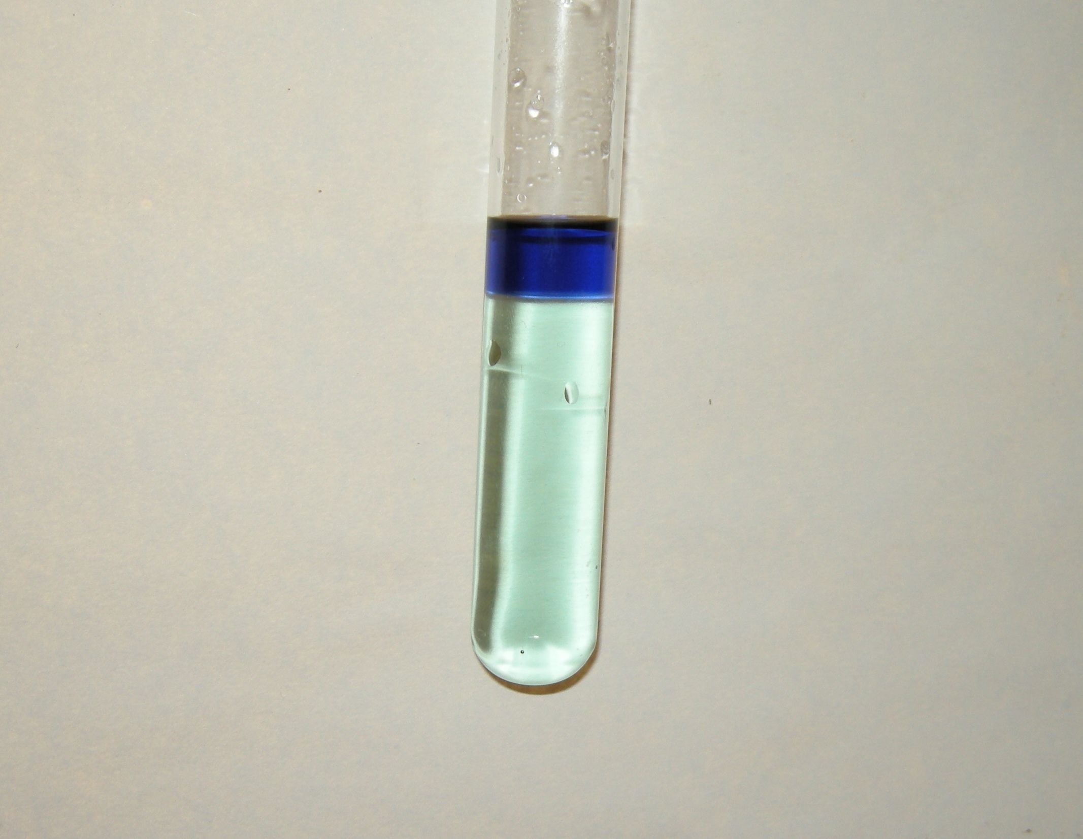 Chromium(VI) oxide peroxide stabilized in diethyl ether. Below, the aqueous acid phase where the chromium(VI) oxide peroxide has decomposed into chromium(III).